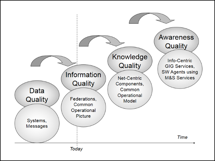 Published in Tolk, A. (2004) An agent-based Decision Support System Architecture for the Military Domain. In Intelligent Decision Support Systems in Agent-Mediated Environments; edited by G. E. Phillips-Wren and L. C. Jain, Springer, pp. 187--205